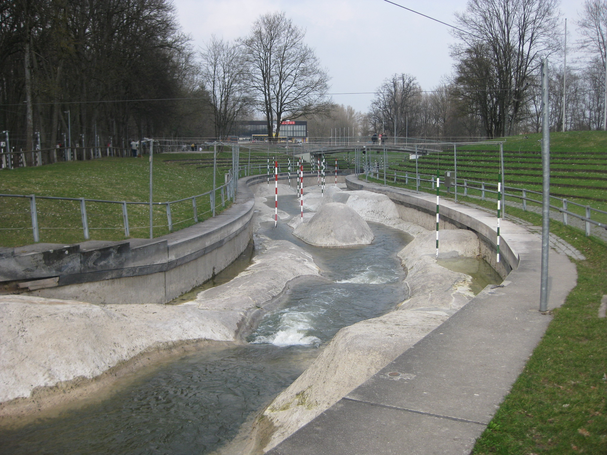 Eiskanal in Augsburg with inflow shut off almost completely.